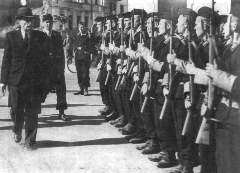 Inspection of Belarusian Auxiliary Police unit by Bürgermeister Radasłaŭ Astroŭski (Астроўскі